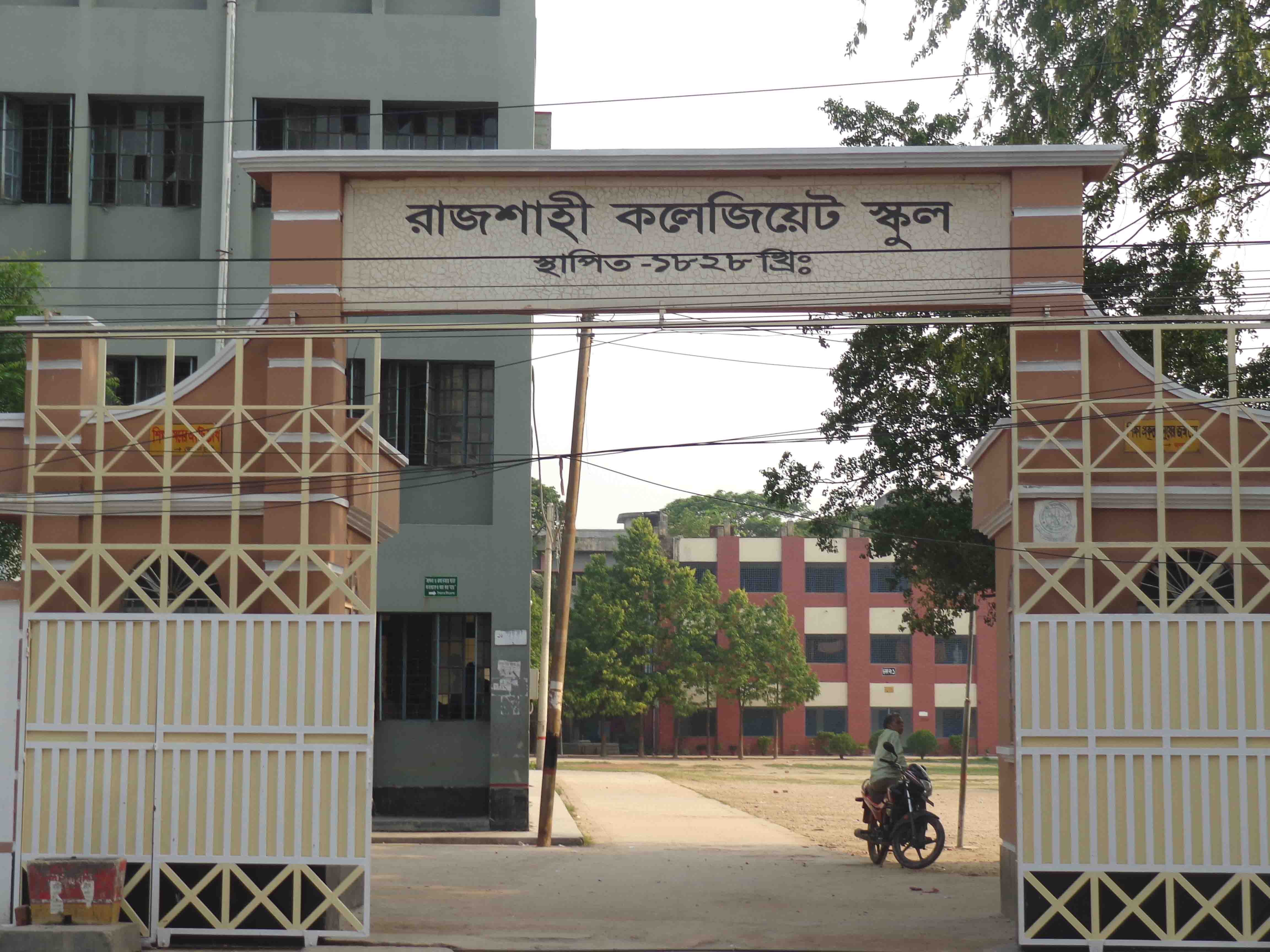 Gate Of Rajshahi Colligeate School, Rajshahi